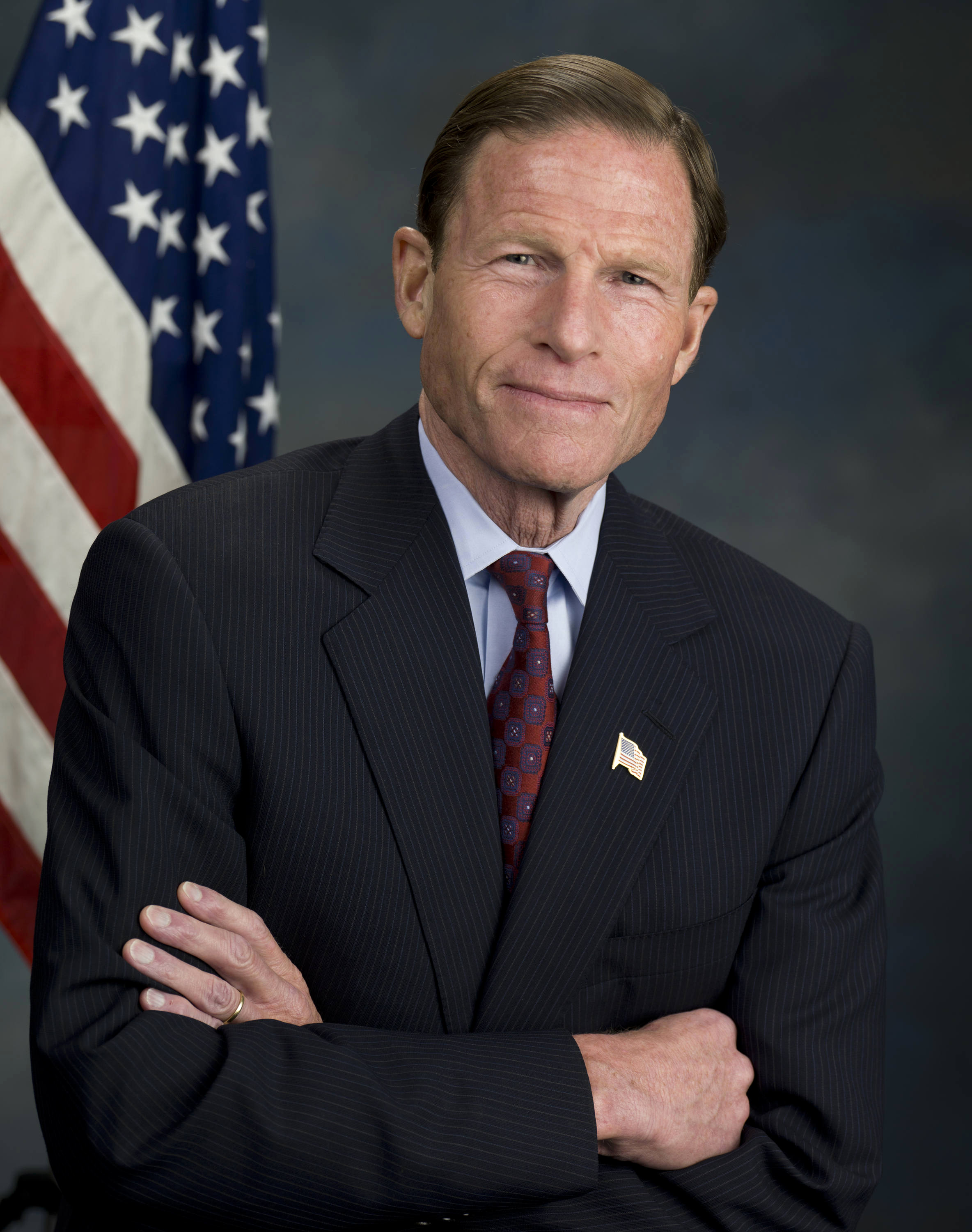 Official portrait of U.S. Senator Richard Blumenthal